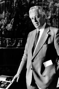 Olivier Reverdin